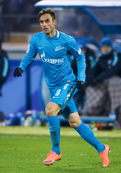 Maurício José da Silveira Júnior